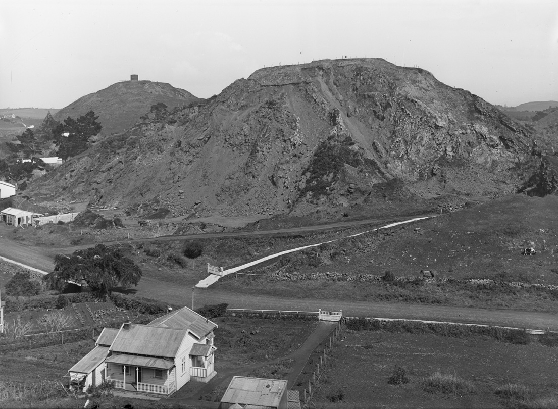 "Panoramic view looking west showing Three Kings Road (later Mount Eden Road, foreground) and part of the Three Kings mountains" Sir George Grey Special Collections, Auckland Libraries. 4-4230.